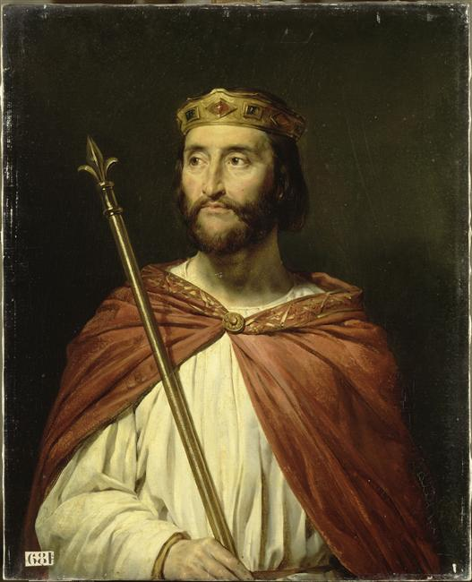 Portraits of Kings of France is a serie of portraits commissioned between 1837 and 1838 by Louis Philippe I and painted by various artists for the Musée historique de Versailles.